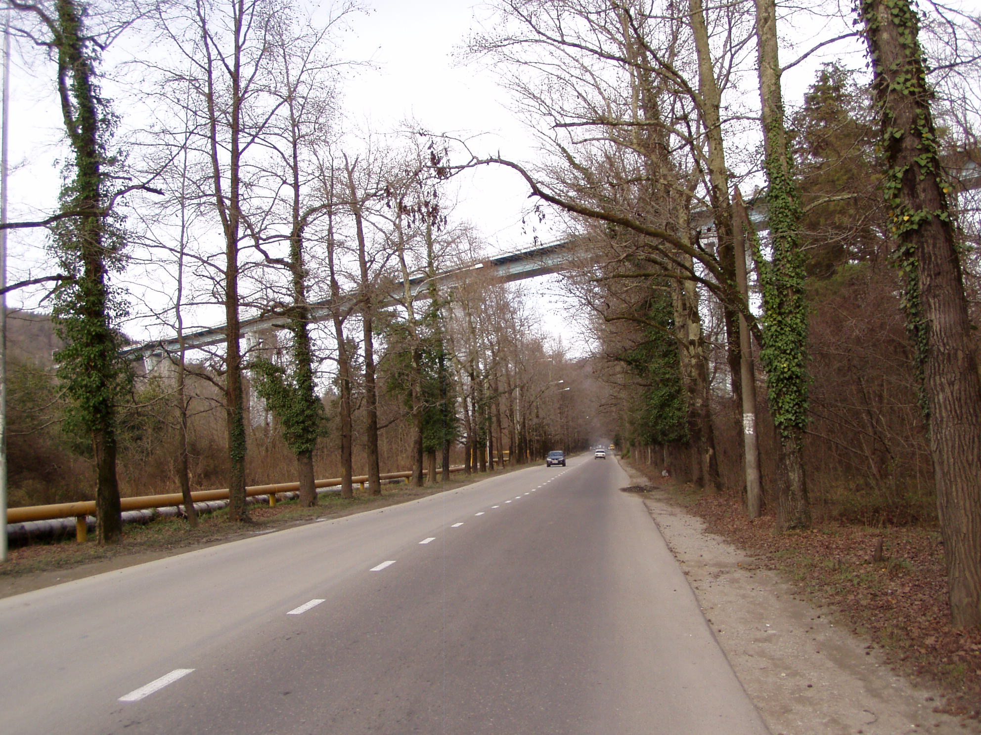 Cheltenham allee in Sochi, Russia